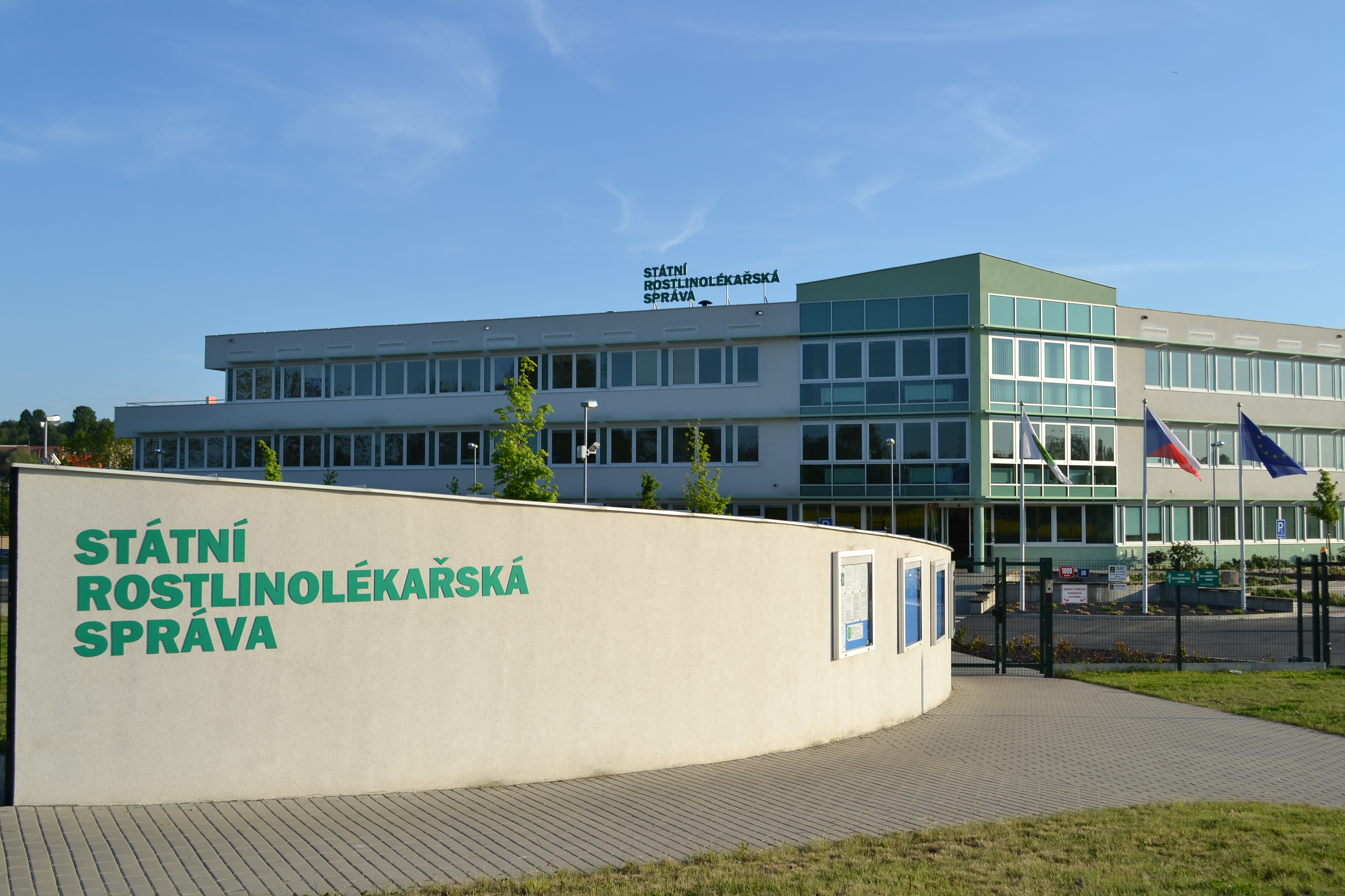 The residence of the State Phytosanitary Administration of the Czech republic, Prague 6